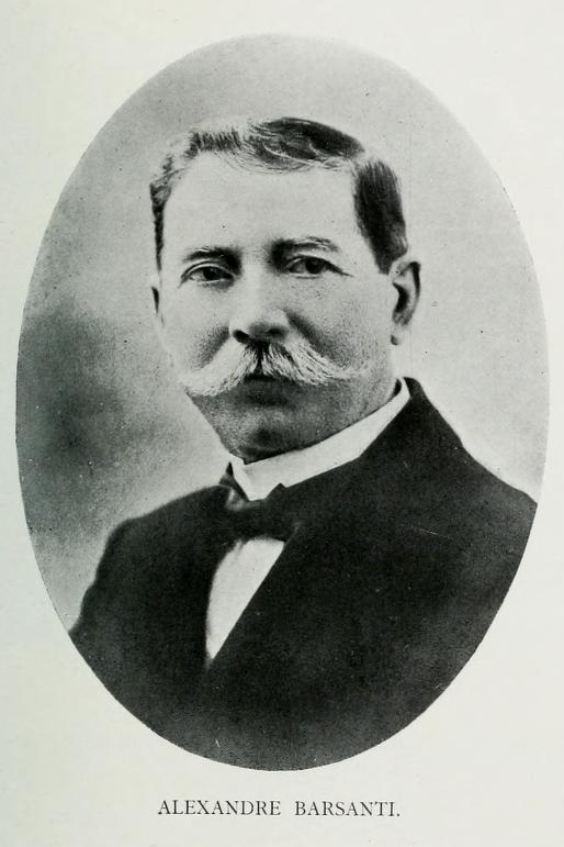 Portrait of the Italian egyptologist Alessandro Barsanti (1858–1917) at unknown age.